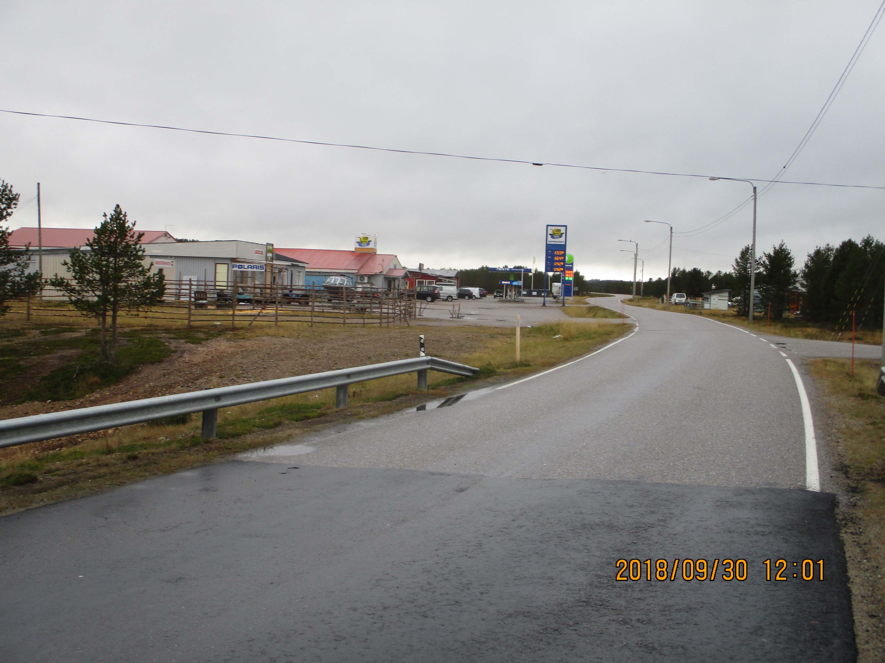 The shops, "supermarkets" in Näätämö.